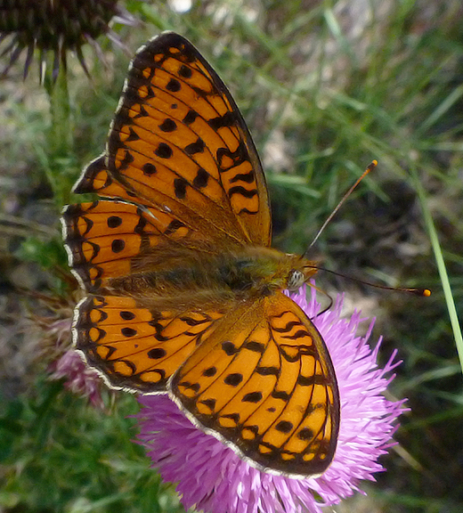 Near Passanant, Catalonia.